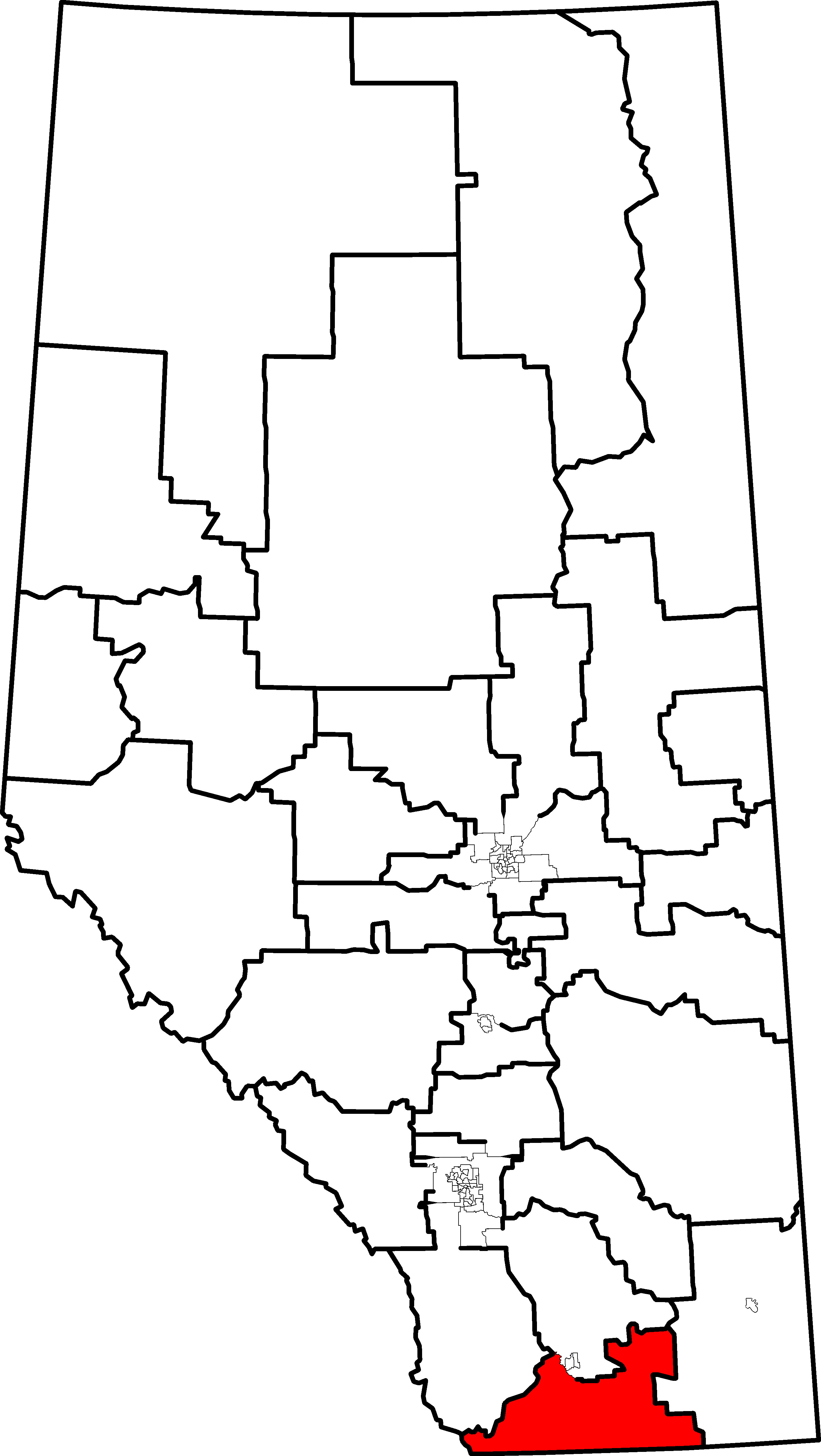 A map of the Alberta provincial electoral districts, effective 2010. Cardston-Taber-Warner is highlighted in red.